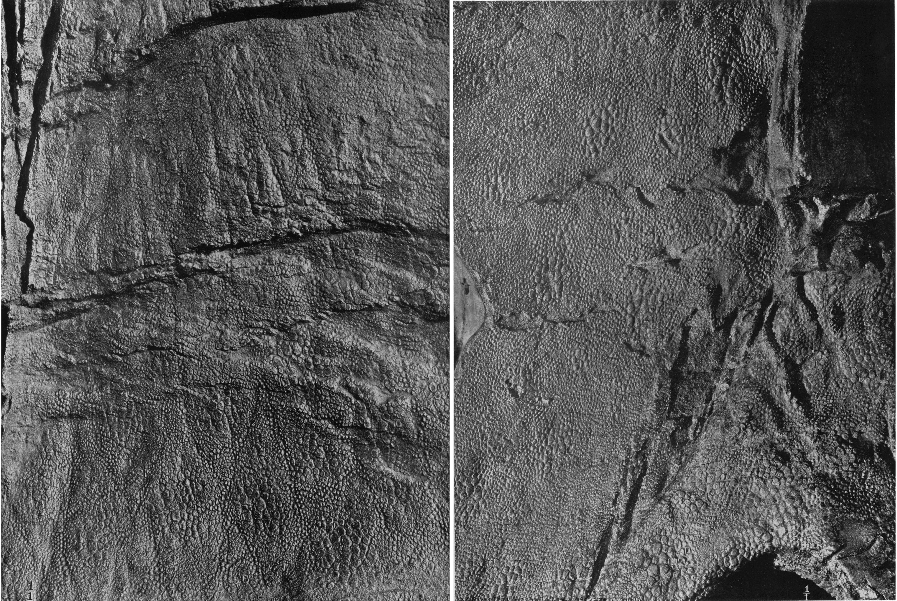 Abdominal and pectoral integument of Edmontosaurus annectens mummy (AMNH 5060).